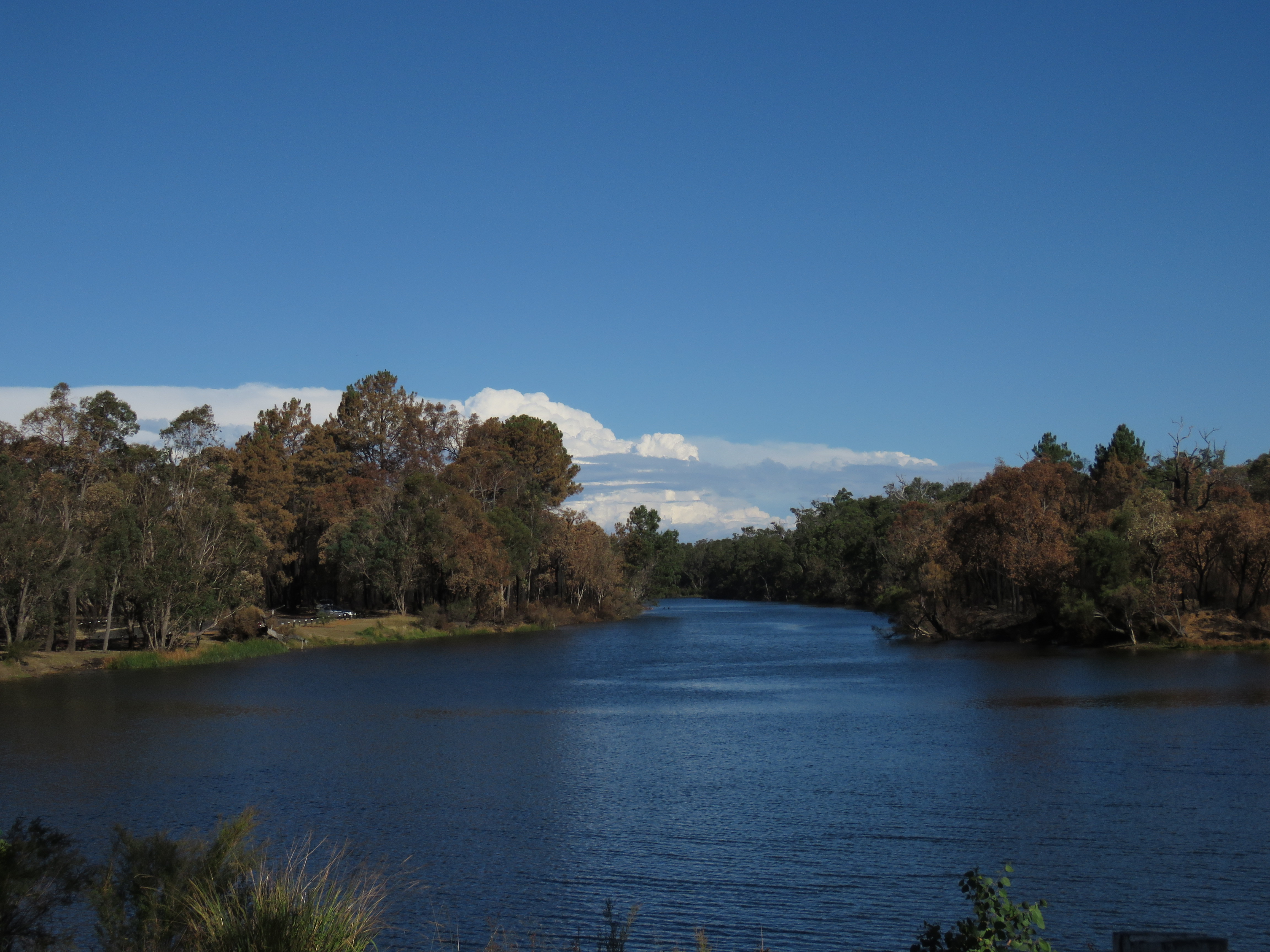 The start of the Collie river, up from the viewing/parking area